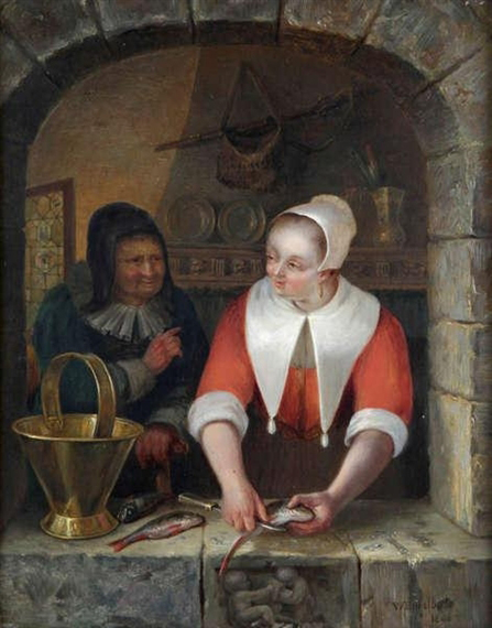 Young servant cleaning fish